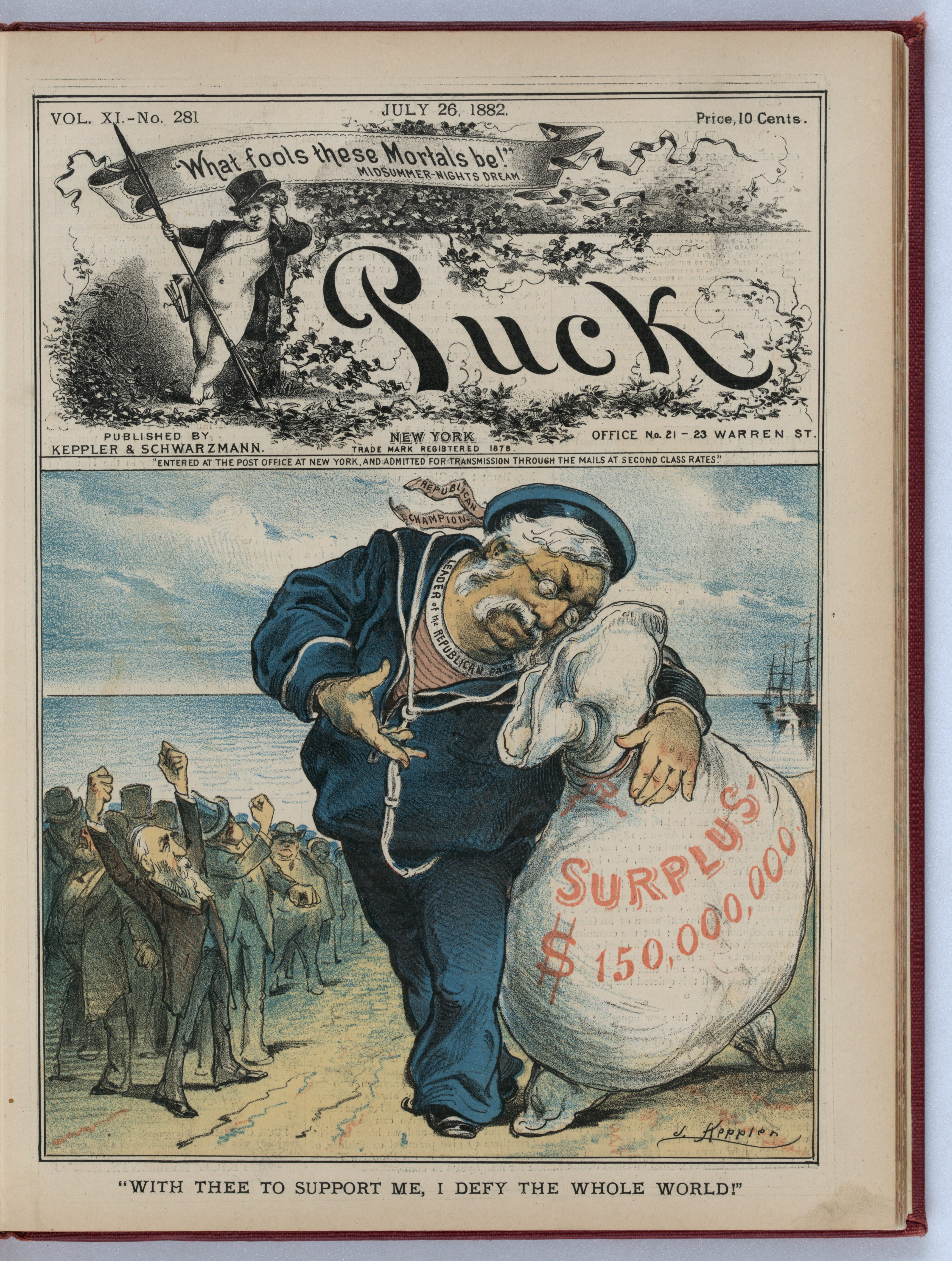 Title: "With thee to support me, I defy the whole world!" Abstract: Print shows George M. Robeson dressed as a sailor and labeled "Leader of the Republican Party" and Republican Champion", leaning on a large duffle bag labeled "Surplus $150,000,000"; a group of men standing on the left may be cheering him on. Physical description: 1 print : chromolithograph. Notes: Copyright 1882 by Keppler & Schwarzmann.; J. Keppler.; Illus. from Puck, v. 11, no. 281, (1882 July 26), cover.; Title from item.